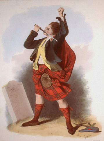 "MacGregor". A plate illustrated by R. R. McIan, from James Logan's The Clans of the Scottish Highlands, published in 1845.